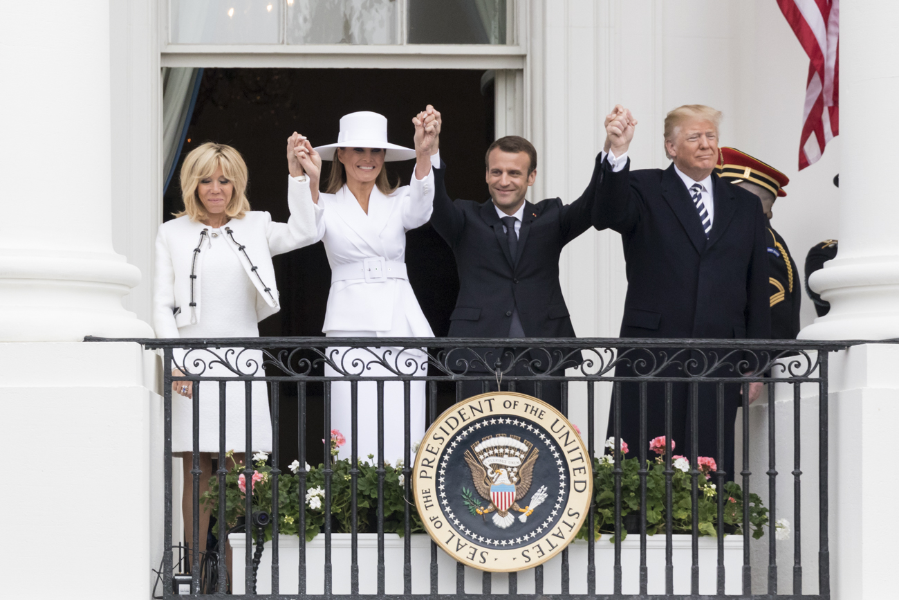 The arrival ceremony of the President of France and Mrs. Macron (Official White House Photo by Andrea Hanks)